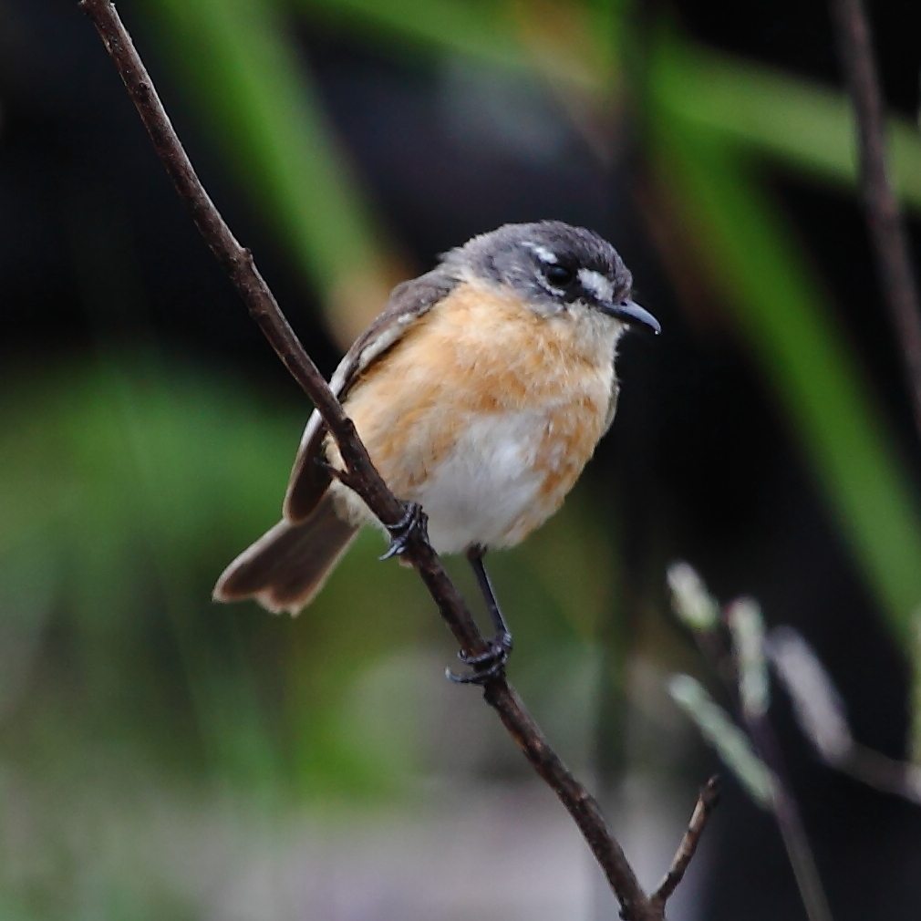 Grey-backed Tachuri at Serra da Canastra National Park - MG - Brazil